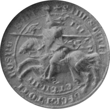 Seal of Tvrtko I of Bosnia, dated 14 March 1356.